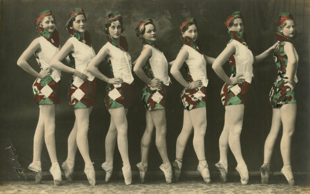 These dancers are students of the Marjorie Hollinshed School of Dance. Pictured, right to left, are Elizabeth Field-Palmer, Dundas Wilkinson, Katharine Cook, Judy Avery, Phyllis Danaher, Vera Tighe and Noela Ruthning.